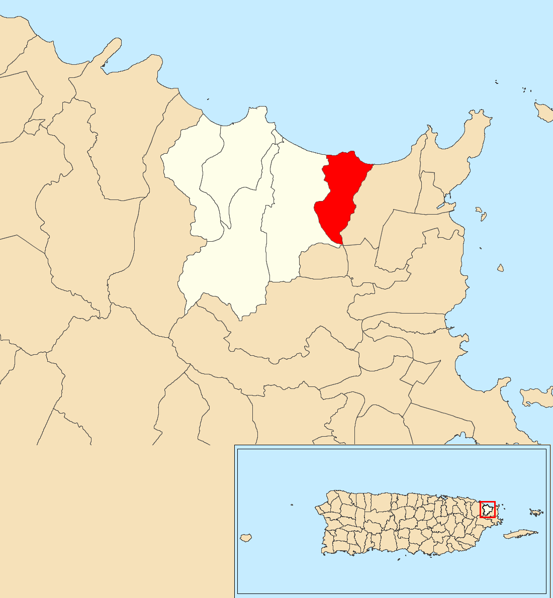 Juan Martín, Luquillo, Puerto Rico locator map